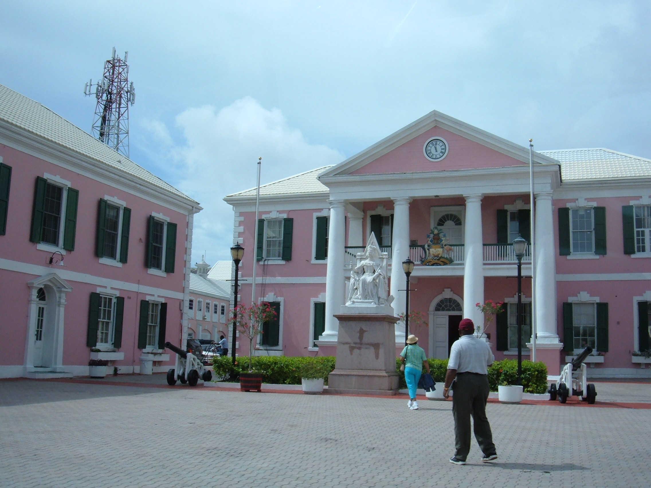 The Parliament of the Bahamas in Nassau.